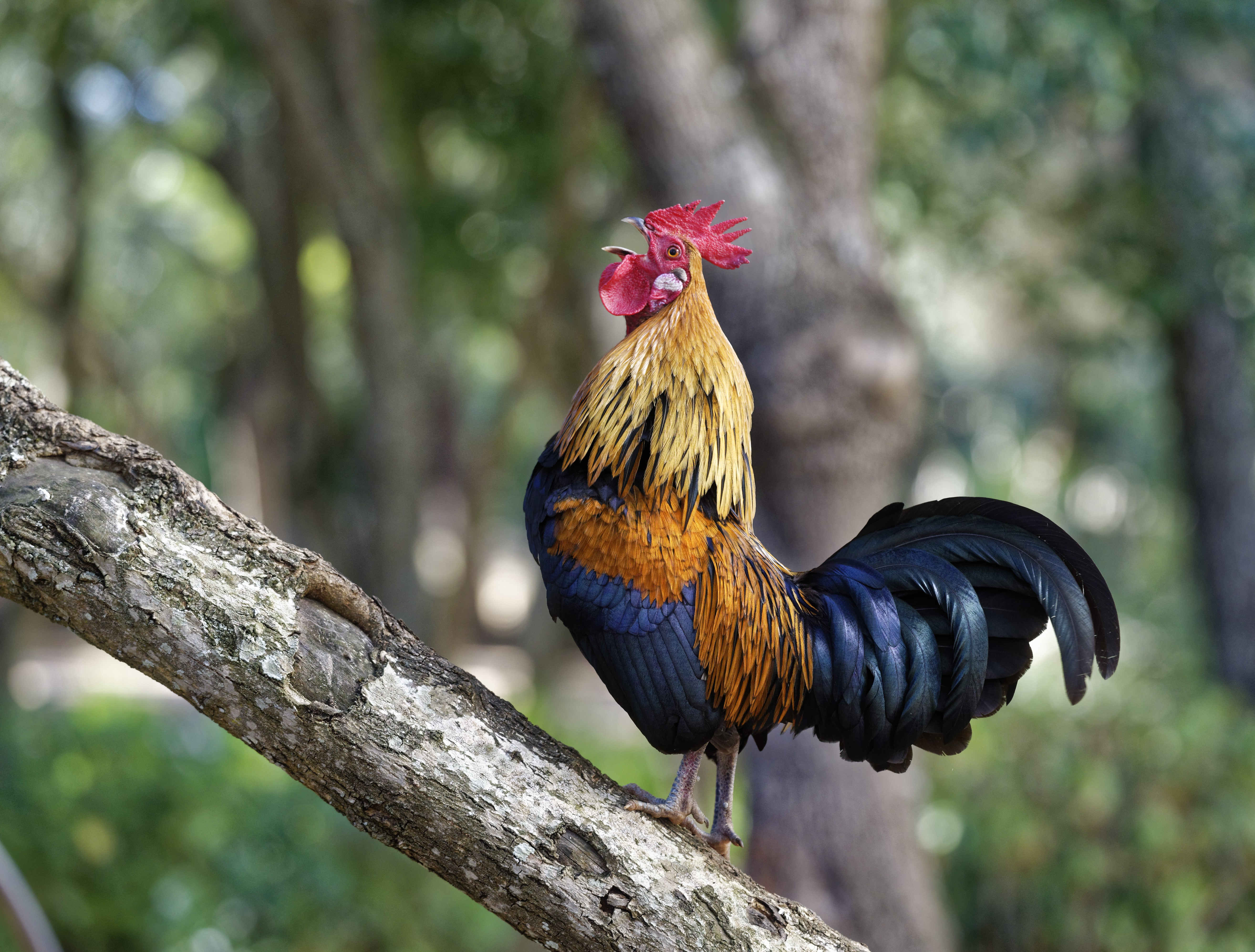 A cockerel sitting on a tree and crowing